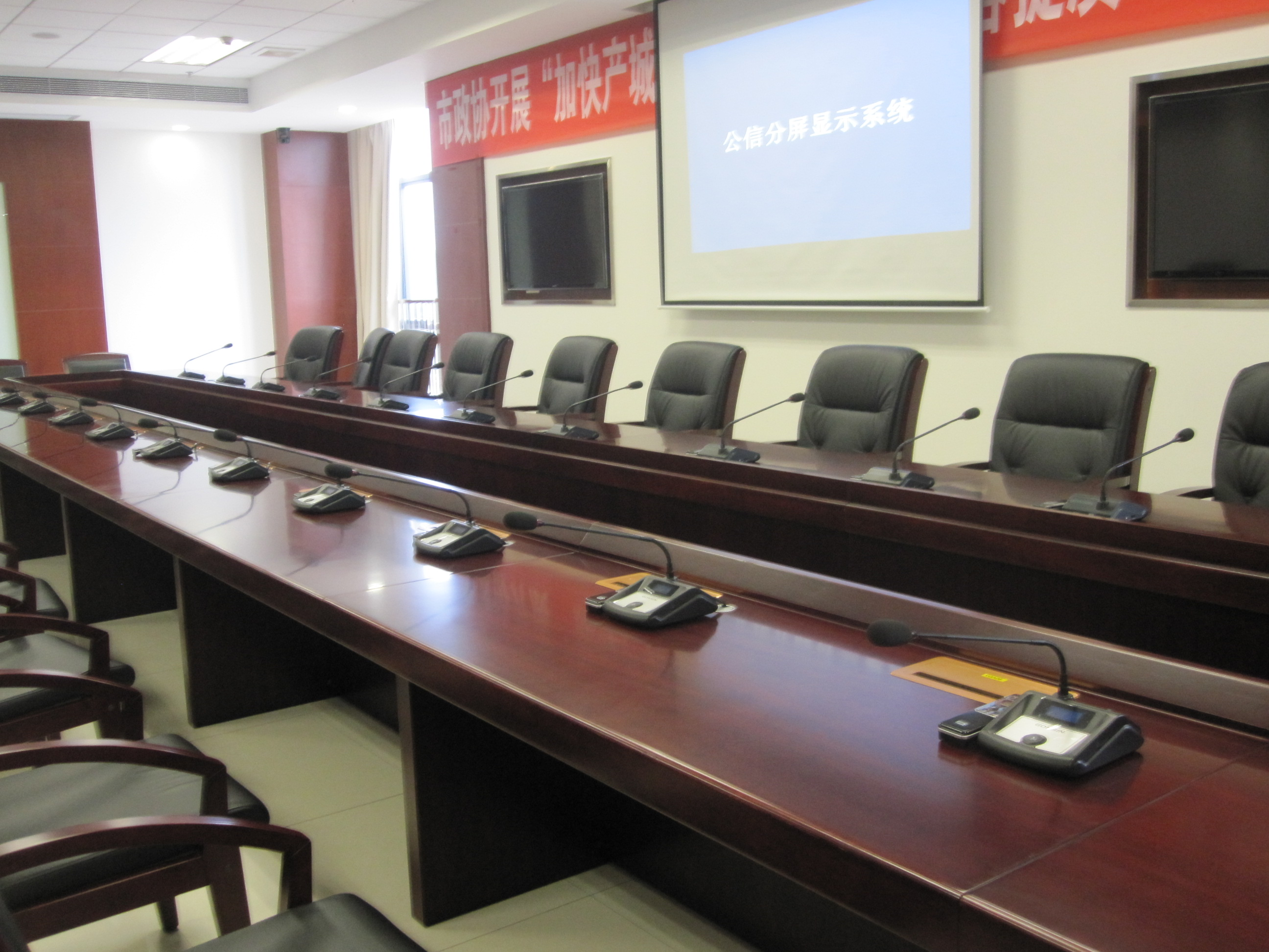 GONSIN TL-4200 Wired Conference Microphone